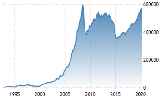 Foreign exchange reserves of Russia from the date of data compilation to the year 2020.